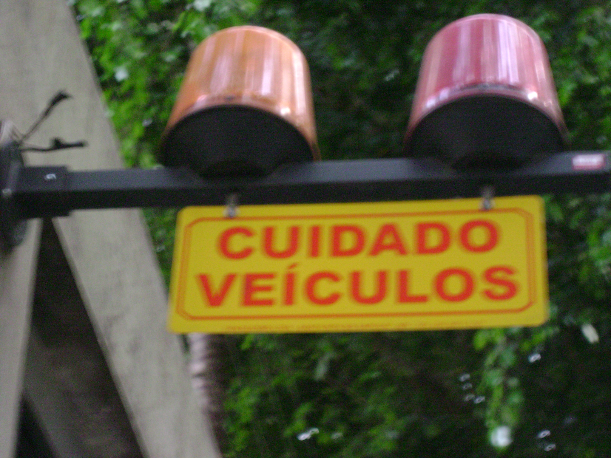 Placa indicativa de garagem.